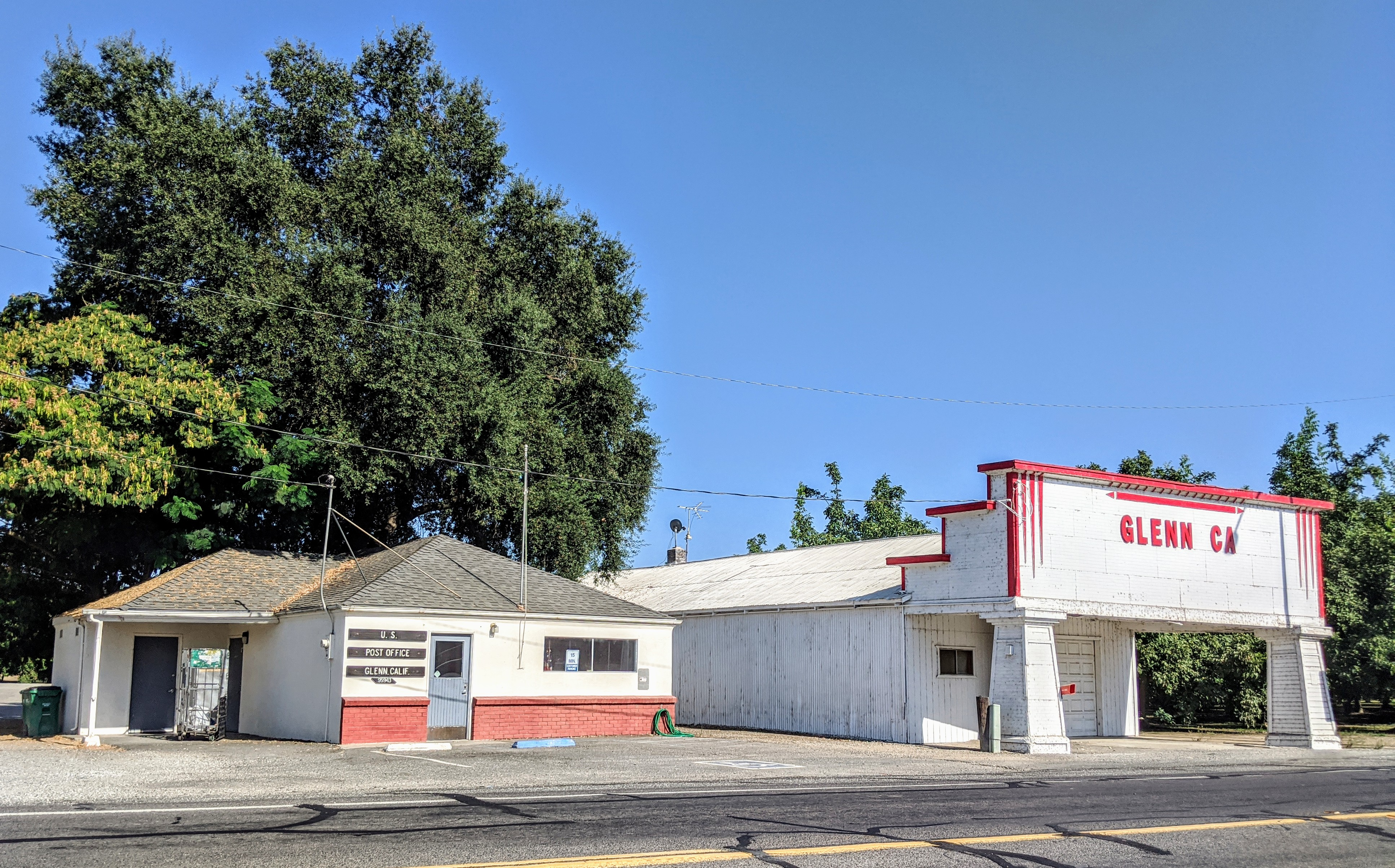 The post office and another highly visible building in the tiny community of Glenn, California. Photo by Jim Heaphy.